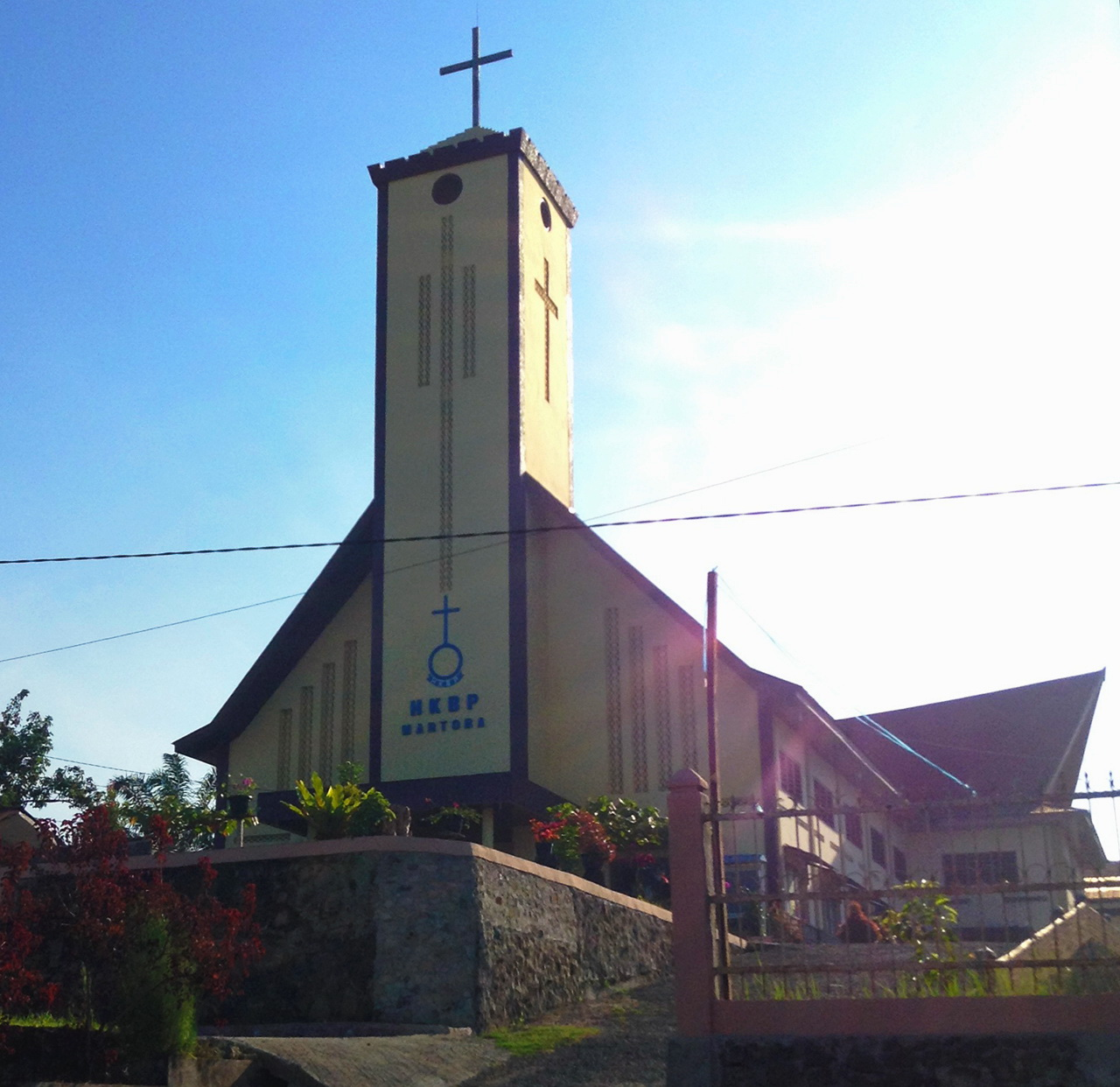 HKBP Martoba, Church in Siantar Utara, Pematangsiantar